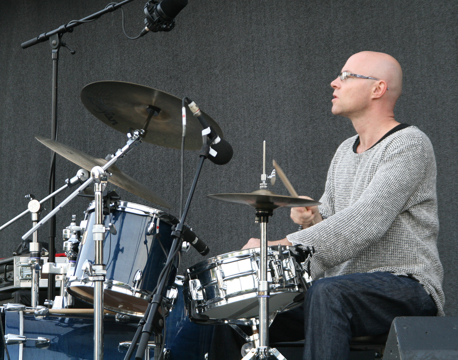 French drummer Laurent Robin during a concert of singer Malia at the Rathausplatz in Vienna (Jazz-Fest Wien)